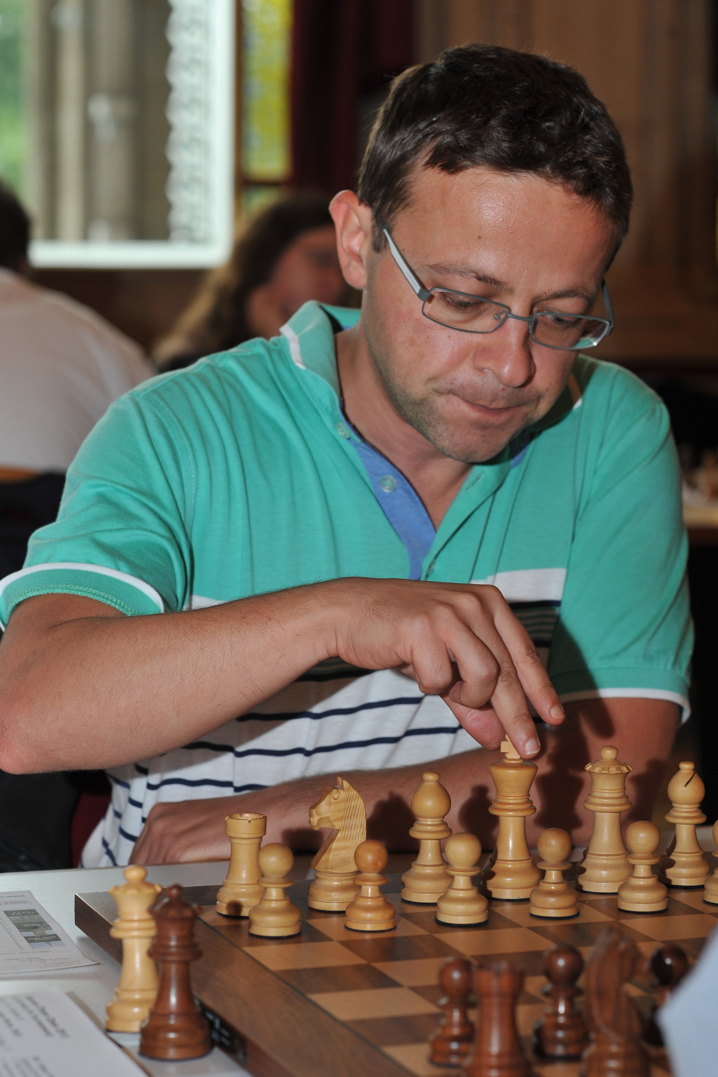 Vienna Chess Open 2013, A-Turnier: 8. Runde am 24. August 2013 - GM Boris Chatalbashev